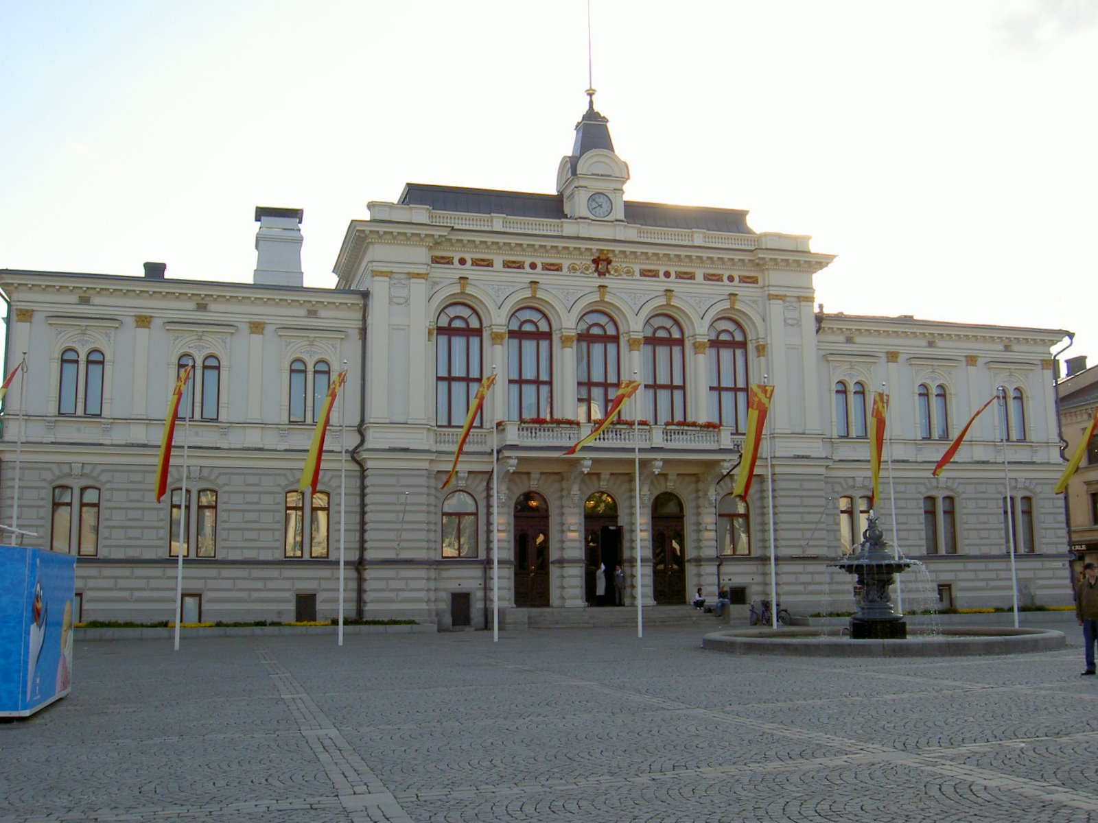 Tampere townhall1